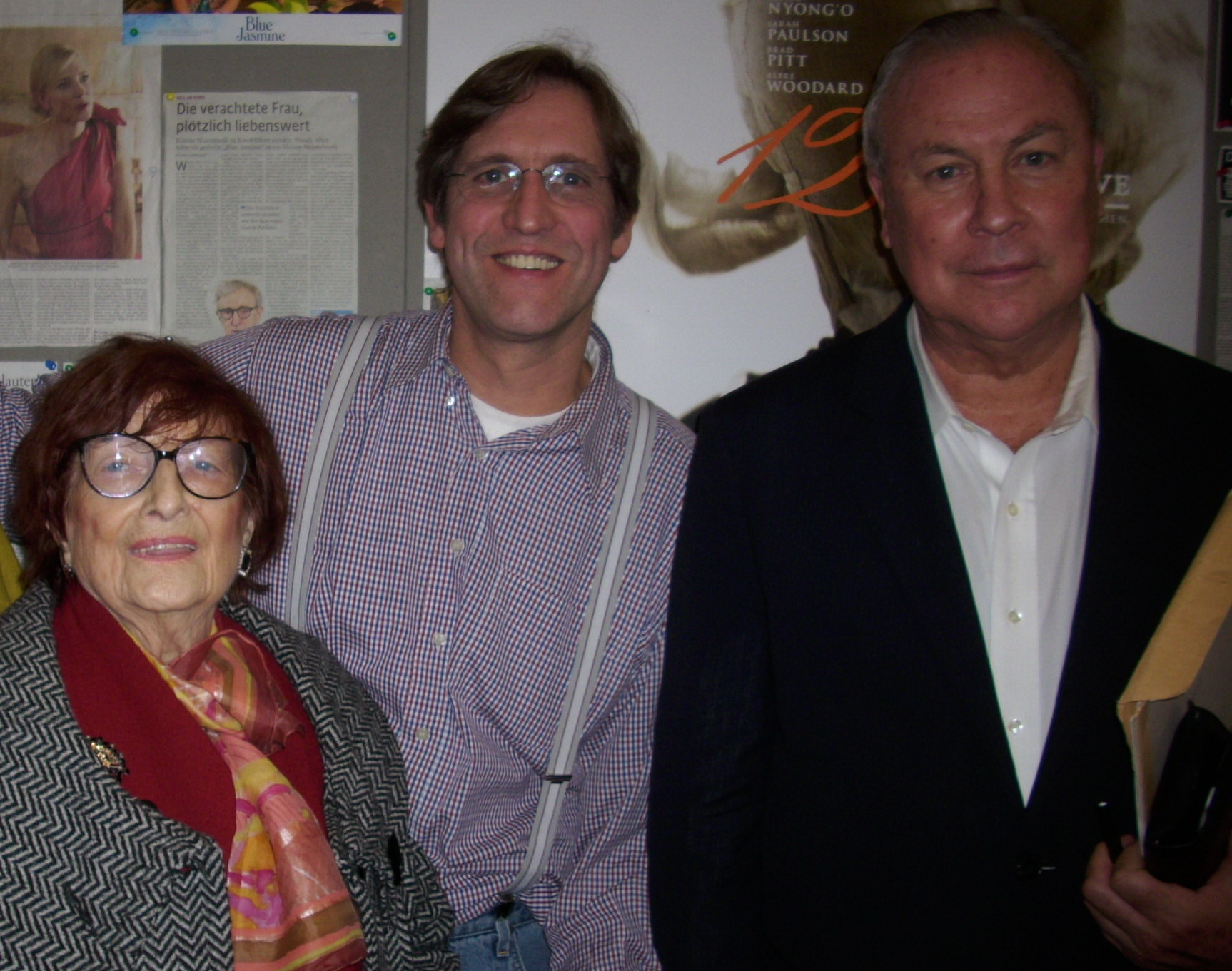 left to right: Hannelore Lübeck (German opera singer), Cornel Wachter (German sculptor and painter), Robert Wilson (American director)